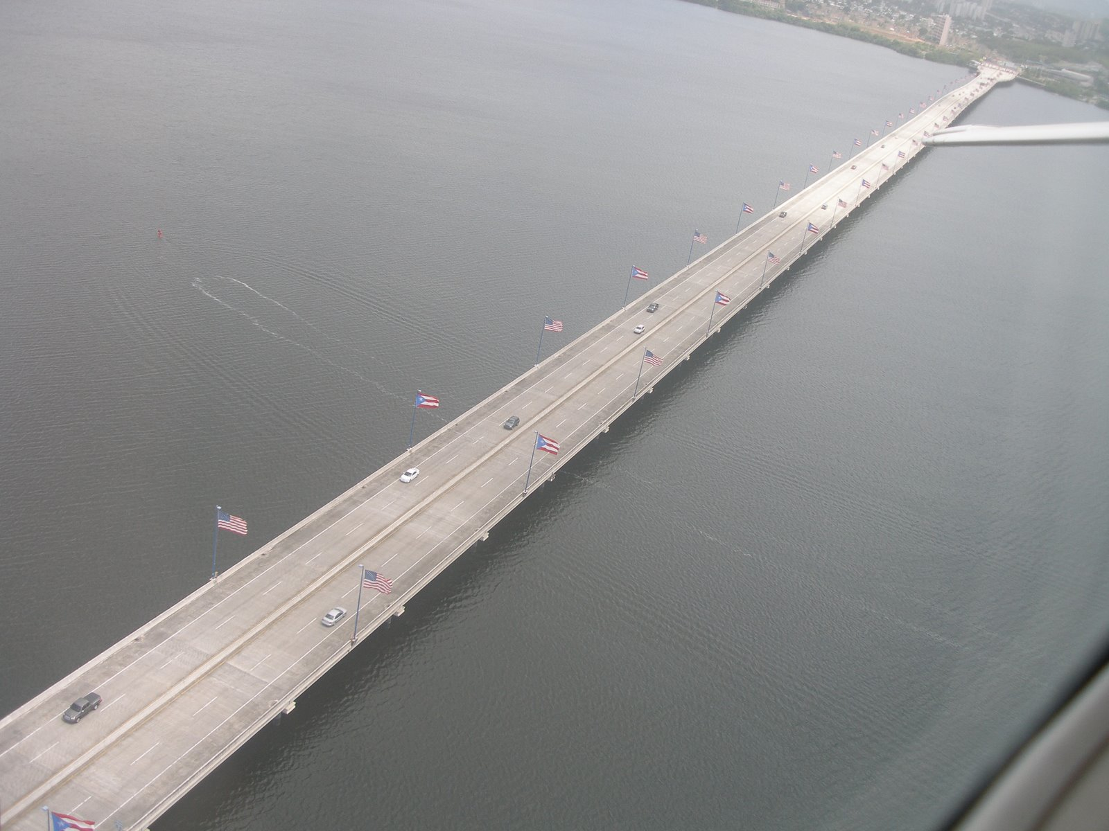 TM Bridge - Operation Bootstrap - taken earlier this year during Scott Brown's visit to Puerto Rico from Jennifer Lopez private jet.